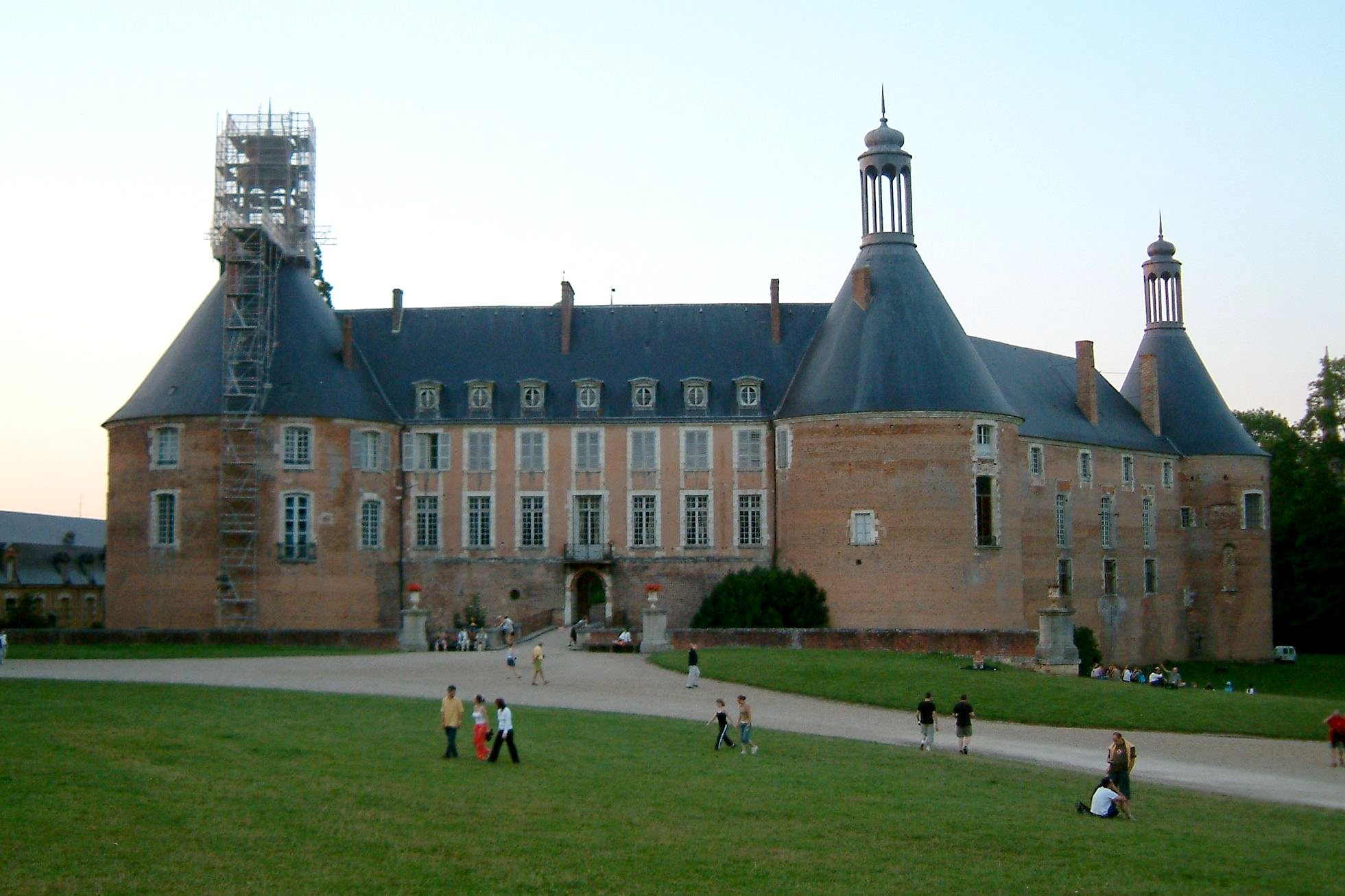 Castle of Saint-Fargeau, Saint-Fargeau, Yonne, Burgundy, France